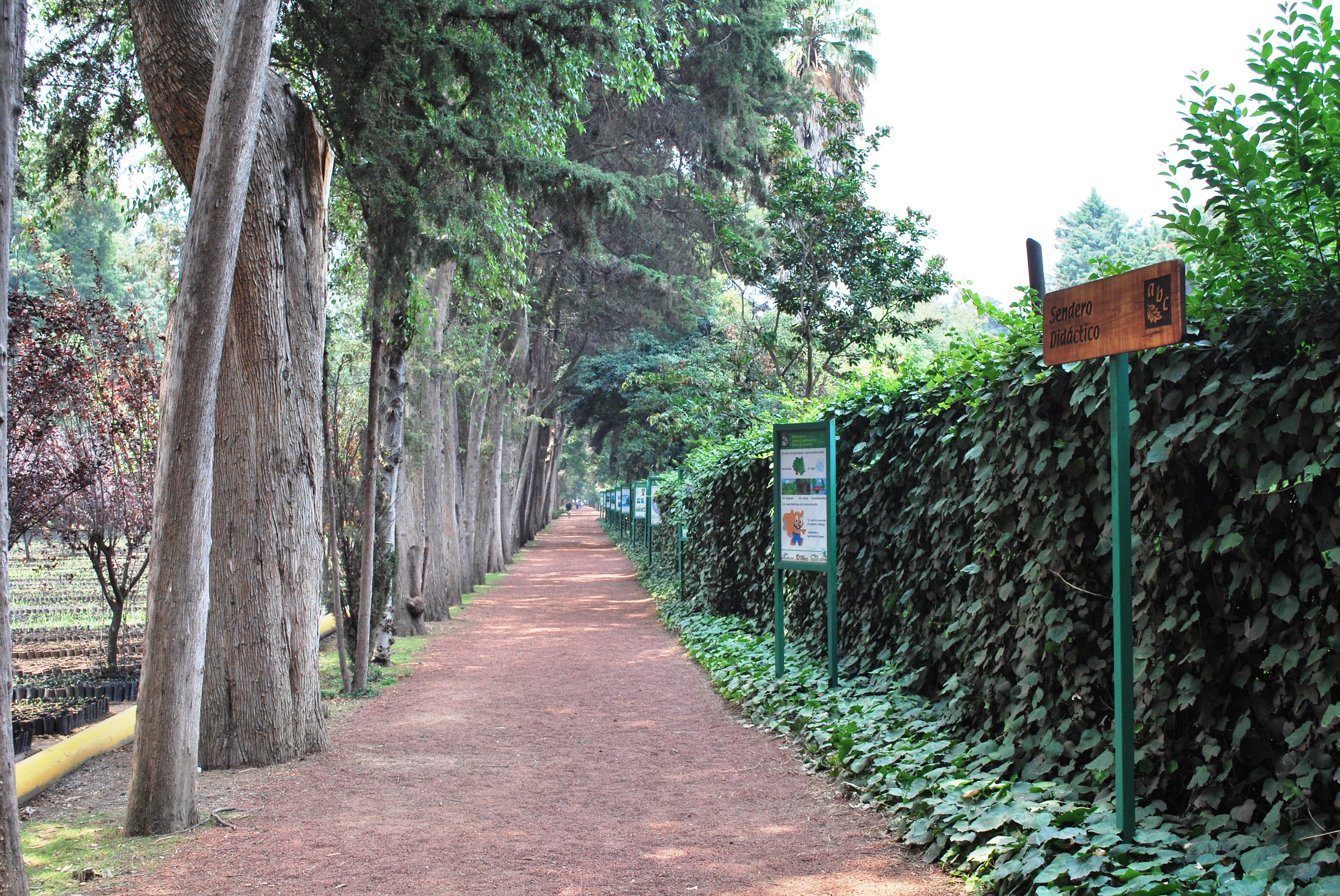 Start of the "Sendero Didáctico" or Teaching Path which has a number of signs demonstrating reforestation work. In the Viveros de Coyoacan in Coyoacan borough in Mexico City